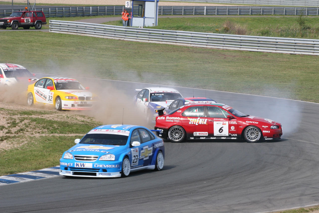 World Touring Car Championship: 2005 Germany